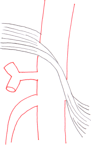 Normal median arcuate ligament anatomy in relationship to celiac artery.